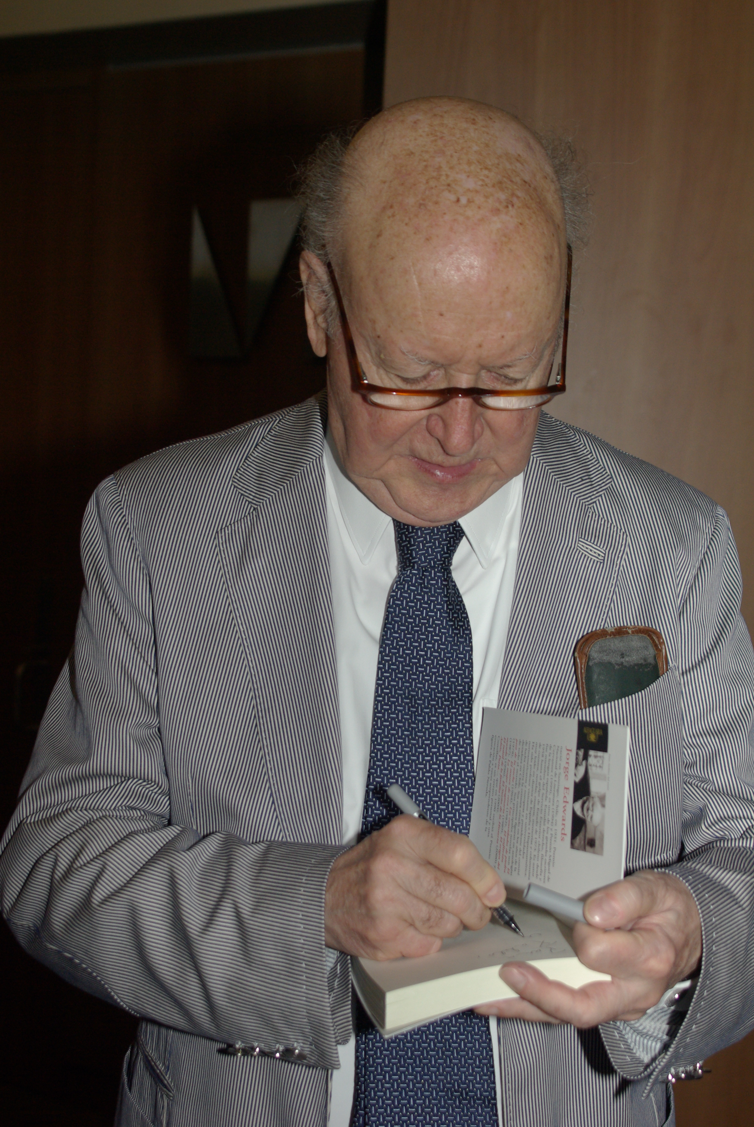 Chilean writer Jorge Edwards at the Miami Book Fair International, 2013